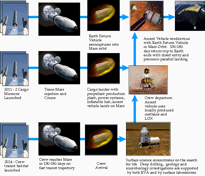 Evolution of goals from Mars Reference Mission 1.0 to 3.0